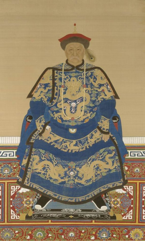 Portrait of Oboi, regent during the reign of Emperor KangxiBân-lâm-gú: Gô-pài, Khong-hi Hông-tè hit sî-tsūn ê Liap-tsìng-ông. 鳌拜，康熙皇帝彼時陣的攝政王。